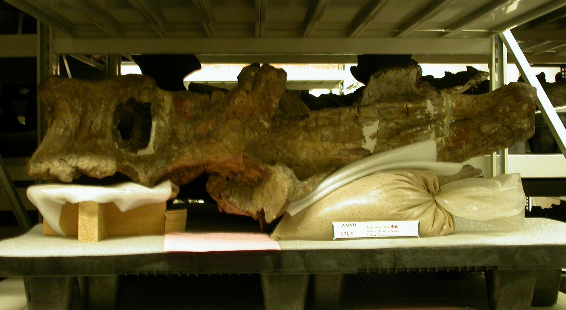 Original caption: Amphicoelias altus dorsal vertebra, almost certainly the holotype, in left lateral view, lying on its back. Photograph by Matt Wedel, from the collections of the AMNH.